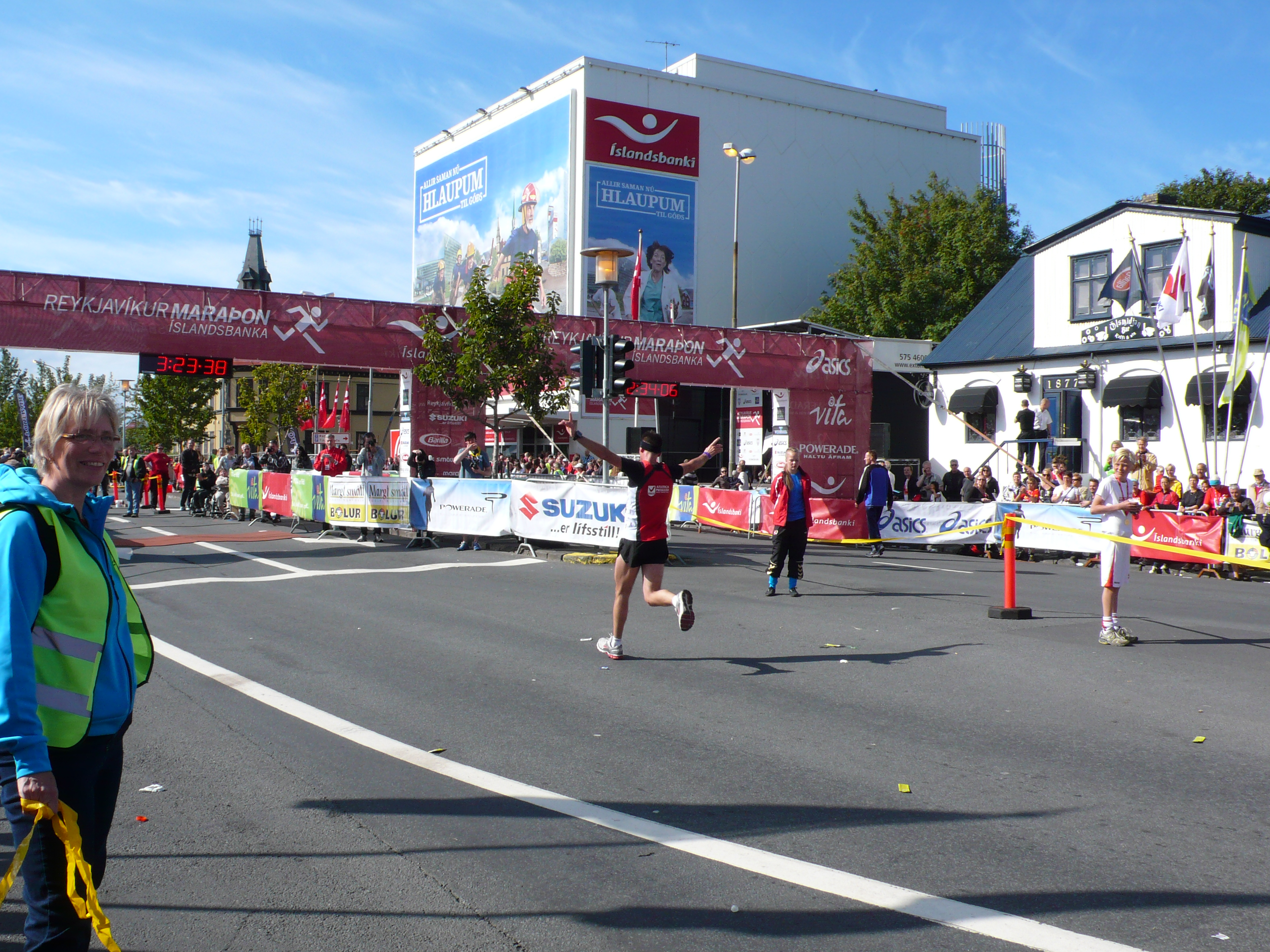 Finish line at the Reykjavik Marathon, August 20, 2011